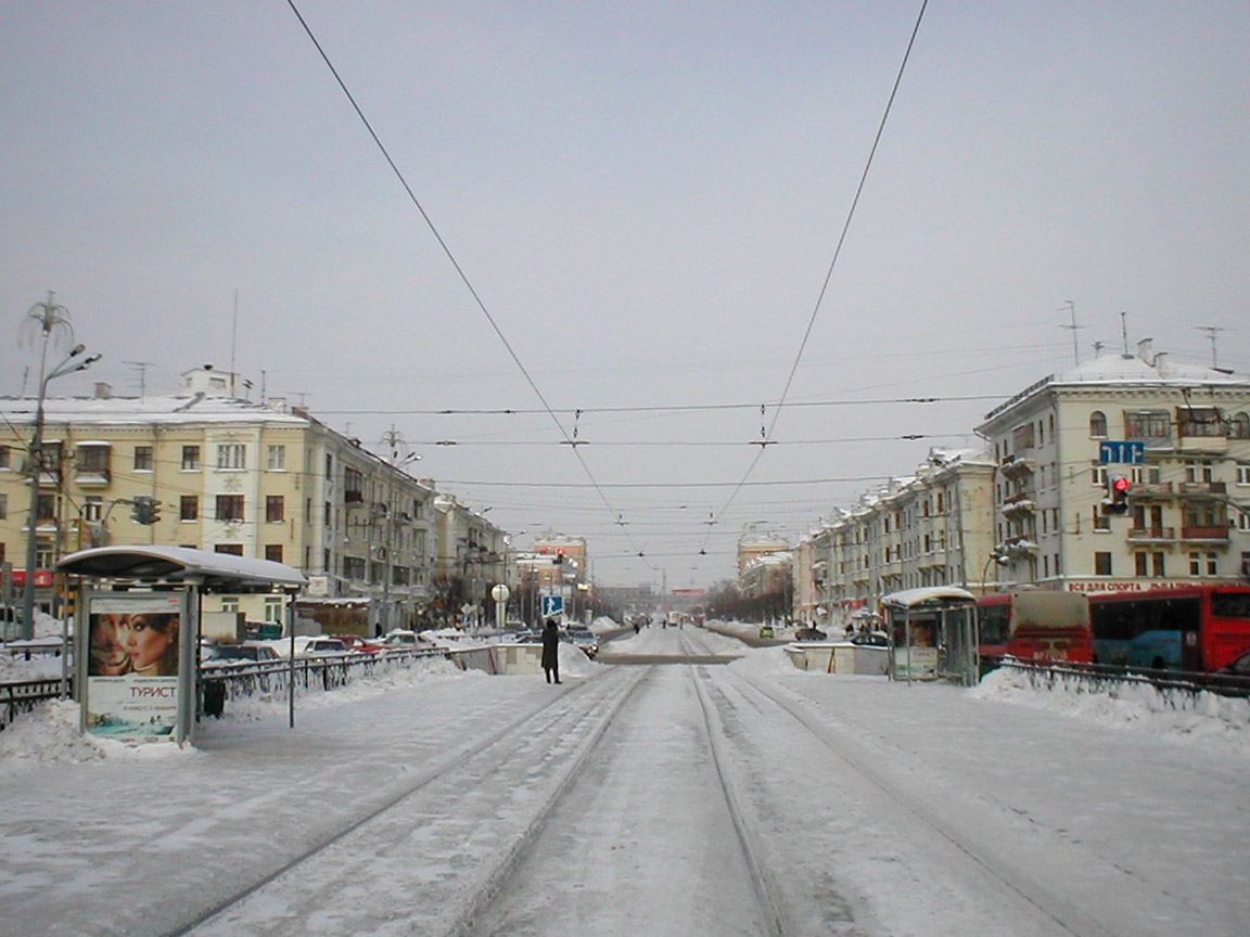 Dekabristov and Vosstaniya street's cross-roads on Vosstaniya square in Kazan